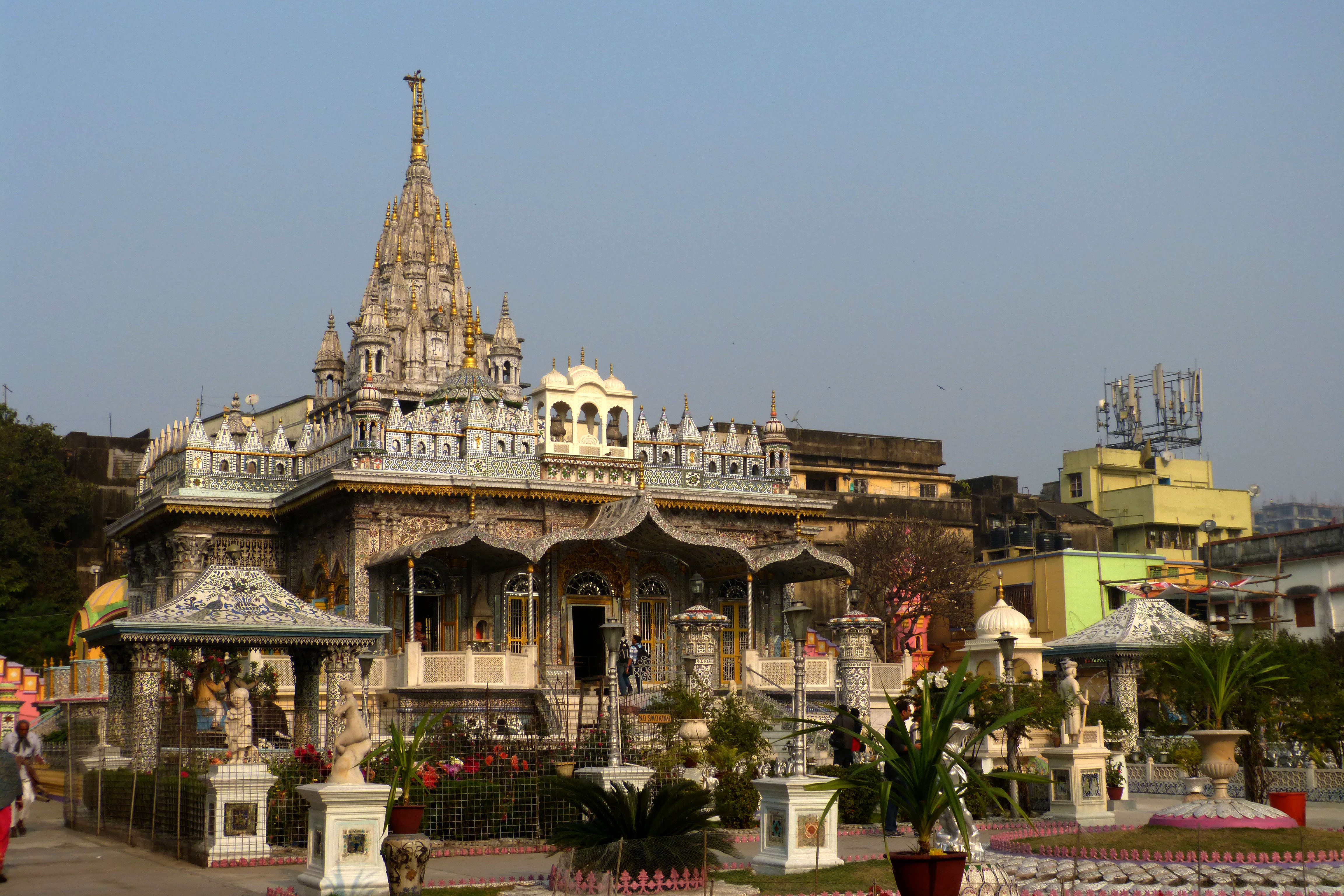 This photograph has been taken during the 'Wikipedia/Wikimedia Photowalk' event for the 'Wikipedia Takes Kolkata III' campaign on 23 February 2014, in northern part of Kolkata.